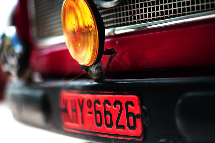 Old Greek fire truck registration plate (Samos island). "KHY" and the red-orange colour mean that this car is for official use.